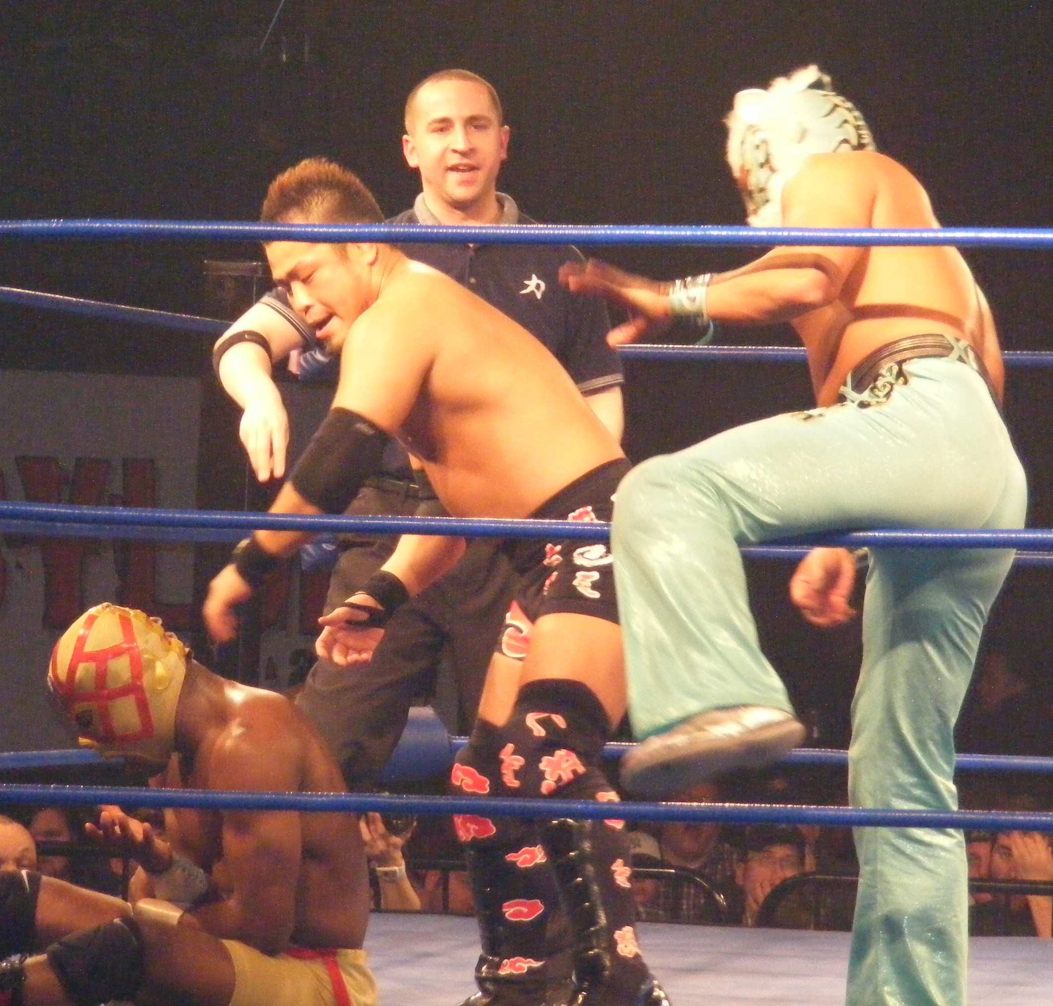 KAGETORA and Super Shisa attack Amasis during CHIKARA's 2011 King of Trios tournament on April 16, 2012.